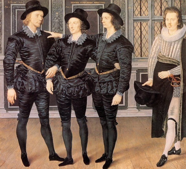 portrait of Anthony Maria Browne flanked by his brothers John and William, with an unknown fourth man entering.